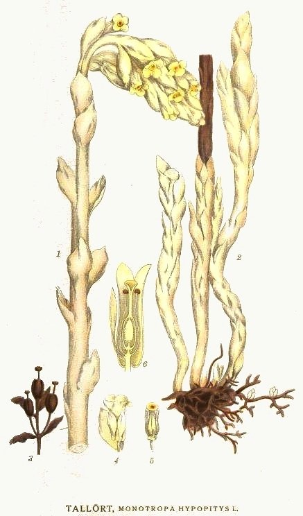 Original Description Tallört, Monotropa hypopitys L.